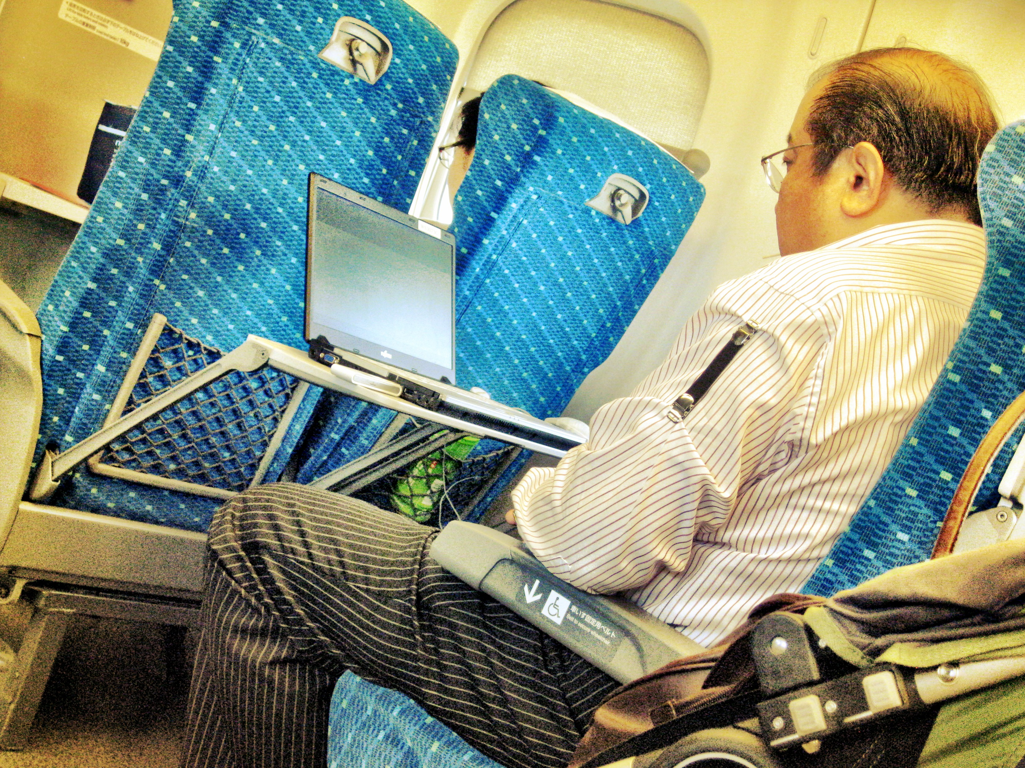 Shirt braces. Brilliant